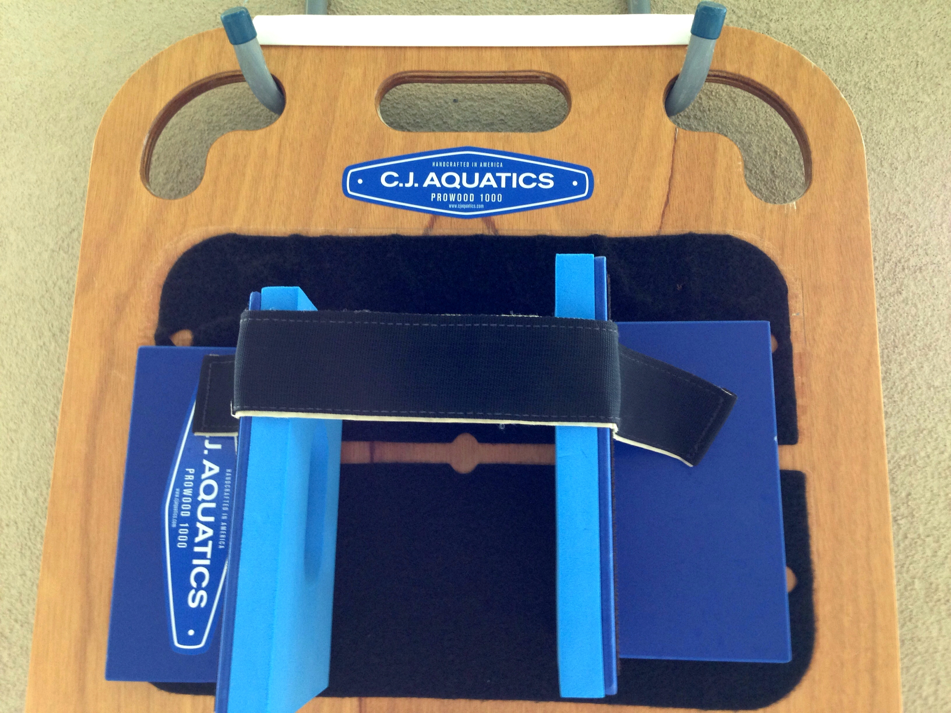 Head imobilizer to be used with long spine board (backboard).